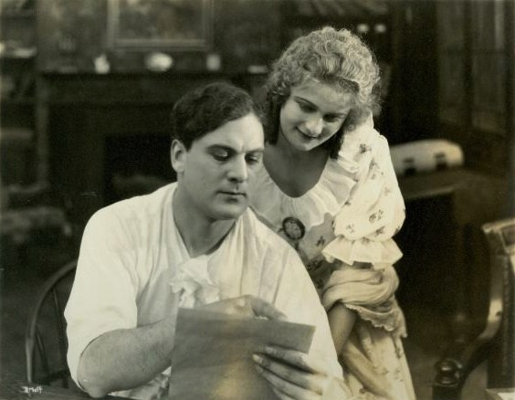 Thomas Meighan and Florence Dagmar in Pudd'nhead Wilson - cropped screenshot